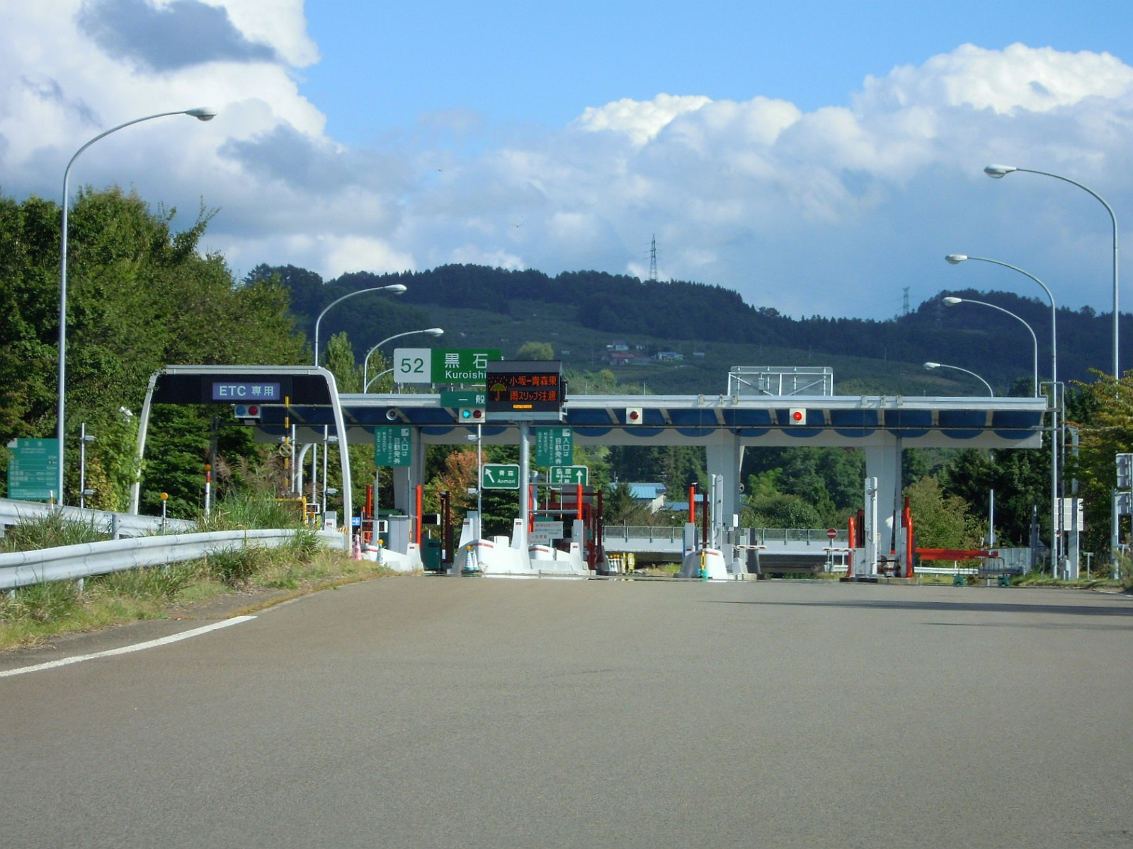 This Interchange, Kuroishi Interchange, is on Tohoku Expressway, in Kuroishi City Aomori Prefecture, Japan.